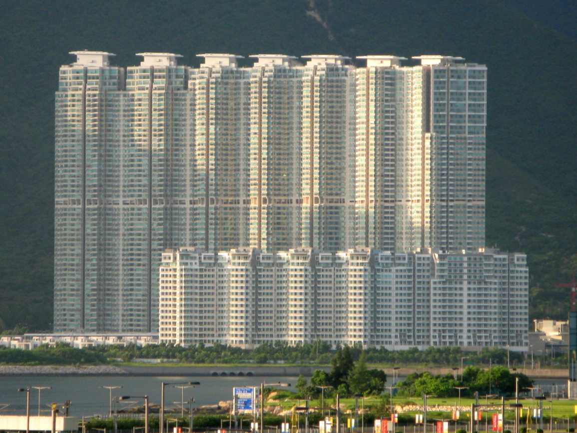 HK Tung Chung Coastal Skyline Residentional 東涌 藍天海岸